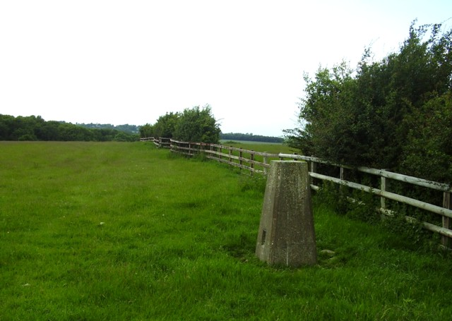 Towards Cold Overton Park Wood This triangulation point is at the highest point in Rutland 646 feet above sea level. The view is not very exciting!